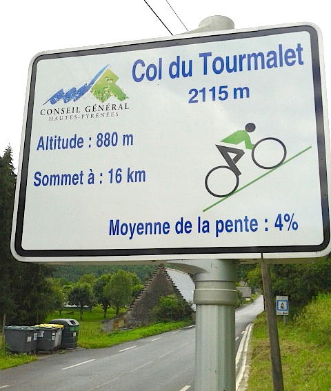 2015 Mountain pass cycling milestone at the Col du Tourmalet in France ascending from Sainte Marie de Campan